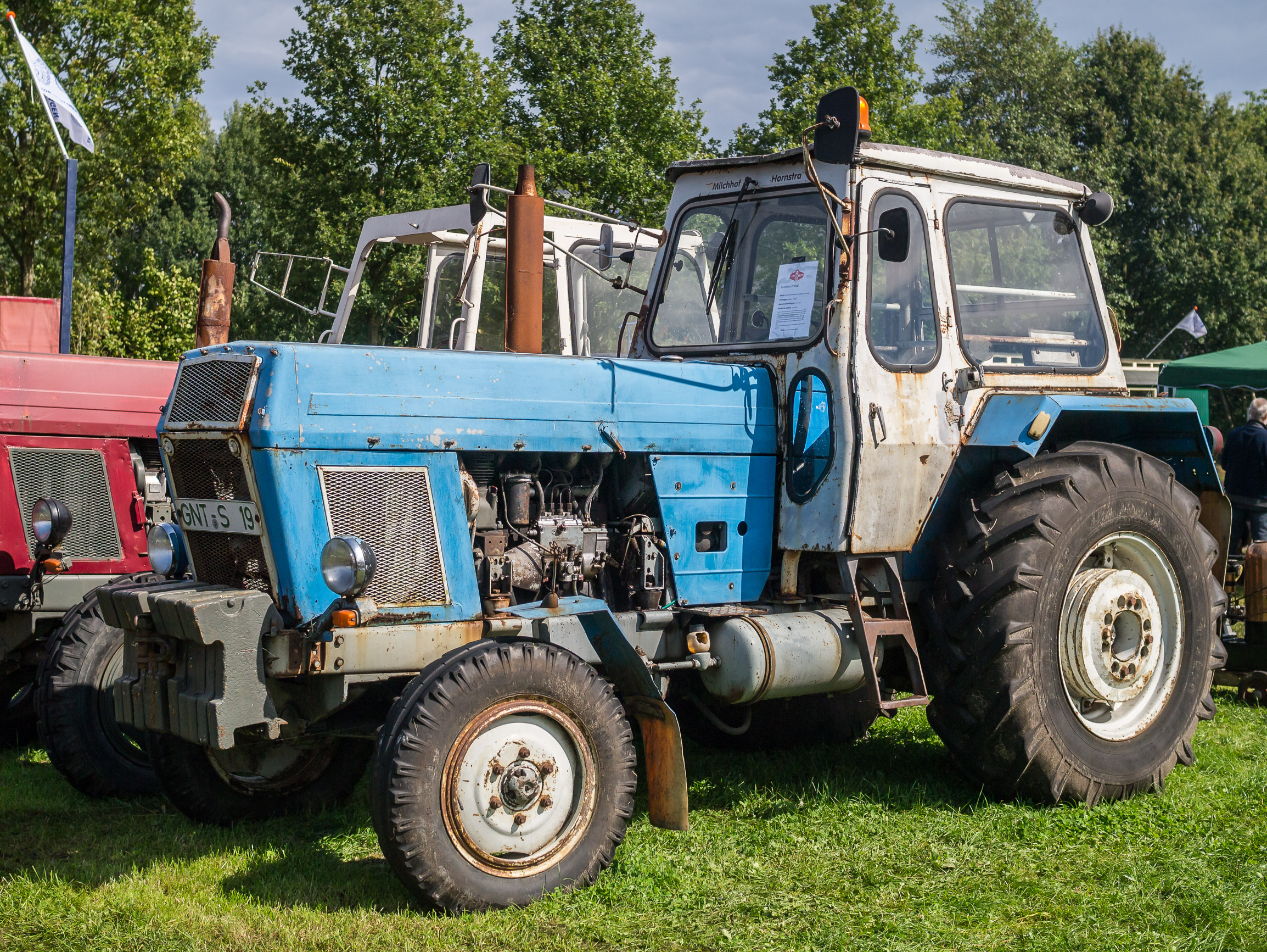 Fortschritt ZT300 Tracktor